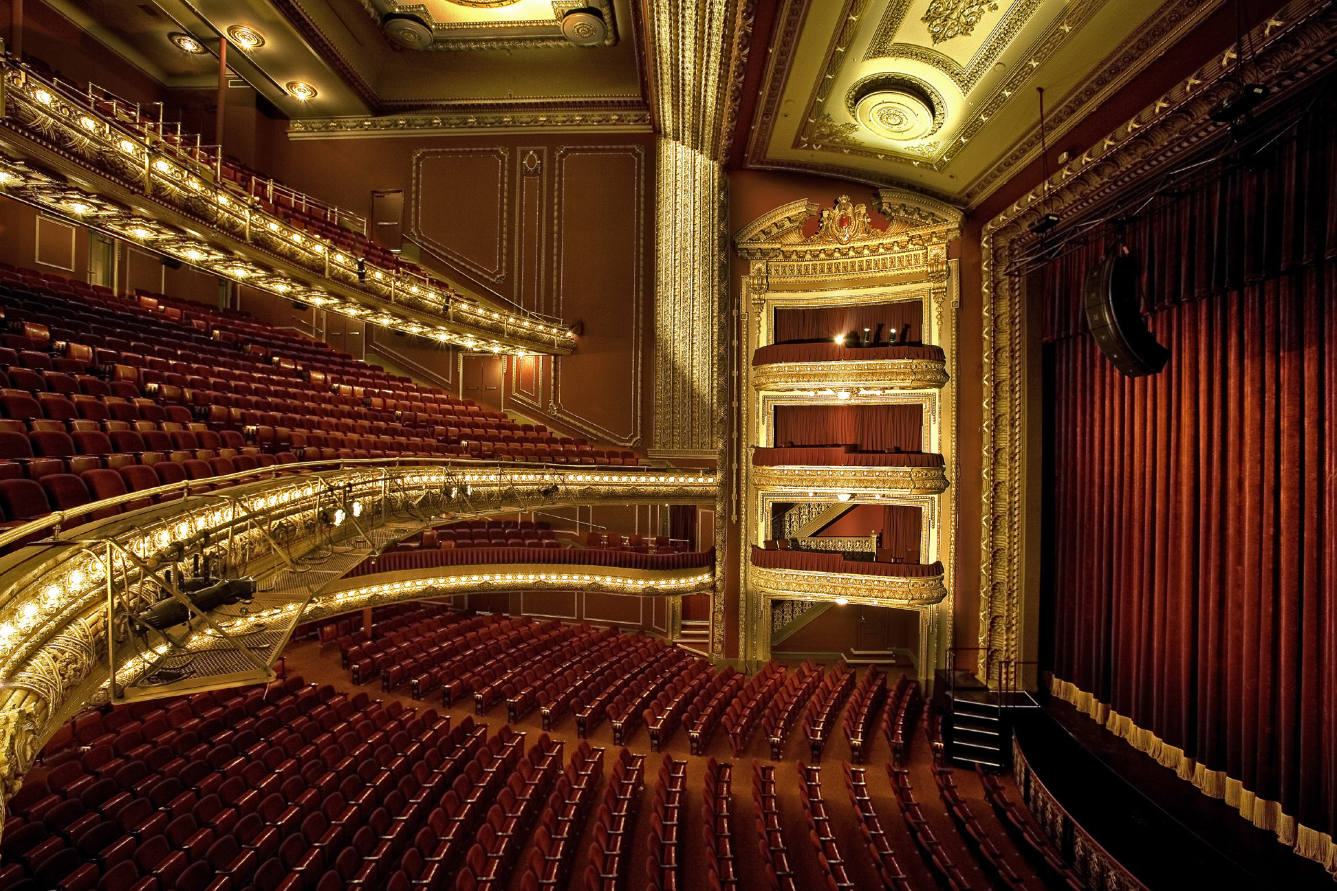 Interior of the CIBC Theatre, in Chicago, Illinois. It was formerly known as The PrivateBank Theatre, Bank of America Theatre, LaSalle Bank Theatre, the Sam Shubert Theatre and the Majestic Theatre.